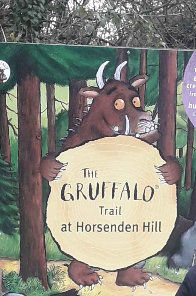 Photo of Gruffalo Trail sign, Perivale